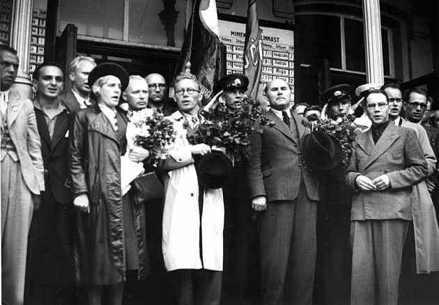 Nadežda Tihonova, Johannes Lauristin, Paul Keerdo, Johannes Vares, Karl Säre and Neeme Ruus in front of Tallinn railway station 24. July 1940